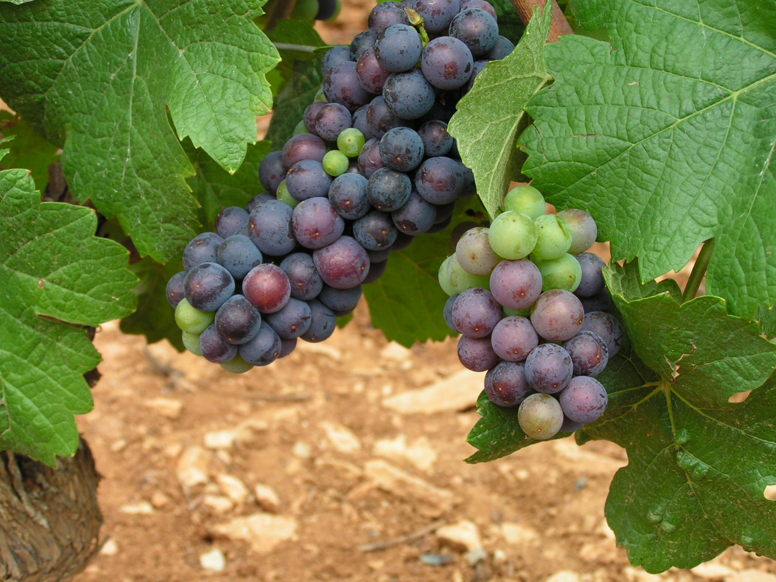 Bunch of Pinot Noir grapes in Volnay, Burgundy in early August, when the grapes have begun to get their colour.